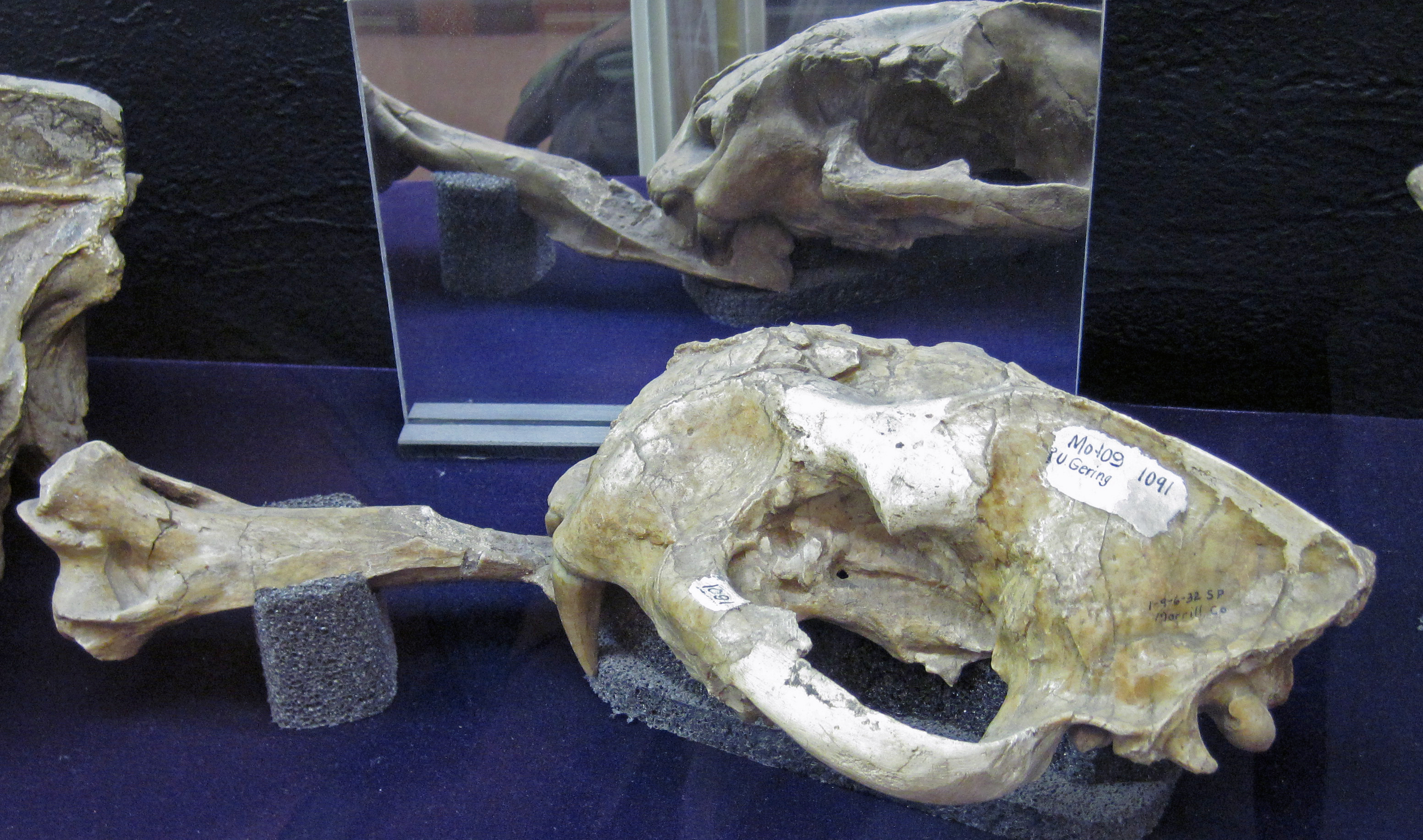 Nimravus major Lucas, 1898 - fossil false sabertooth mammal skull from the Oligocene of Nebraska, USA. (public display, Nebraska State Museum of Natural History, Lincoln, Nebraska, USA) This species is also known by other nomens, including Nimravus brachyops and Pogonodon brachyops. From museum signage: "Innocent Assassins A 25 million-year-old cat fight This remarkable specimen consists of the skull of an extinct cat-like predator with its canine tooth piercing the leg bone of another cat. It inspired Nebraska-born writer and scientists Loren Eiseley to compose a poem, The Innocent Assassins, which begins: Once in the sun-fierce badlands of the west in that strange country of volcanic ash and cones, . . . we found a saber tooth, most ancient cat, far down in all those cellars of dead time. Eiseley was a member of the museum field party that discovered this fossil in Black Hank Canyon in 1932. " Classification: Animalia, Chordata, Vertebrata, Mammalia, Carnivora, Nimravidae Stratigraphy: Gering Formation, Upper Oligocene Locality: Black Hank Canyon (Black Hank's Canyon), south of the town of Bayard & ~3 miles west of Redington Gap, Wildcat Hills, western Morrill County, western Nebraska, USA See info. at